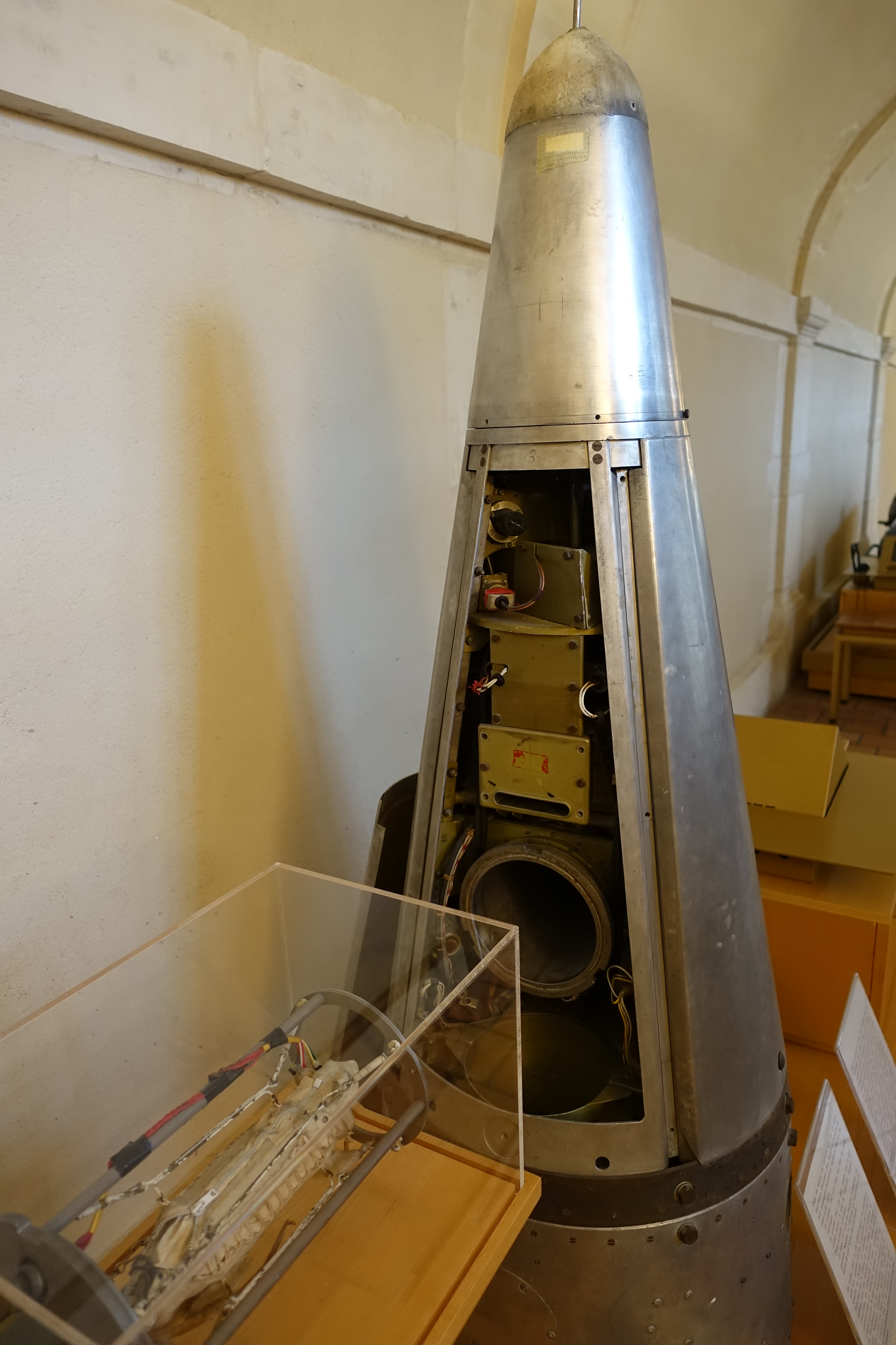 Val-de-Grâce, a military hospital and church located at 74 boulevard de Port-Royal in the 5th arrondissement of Paris, France.